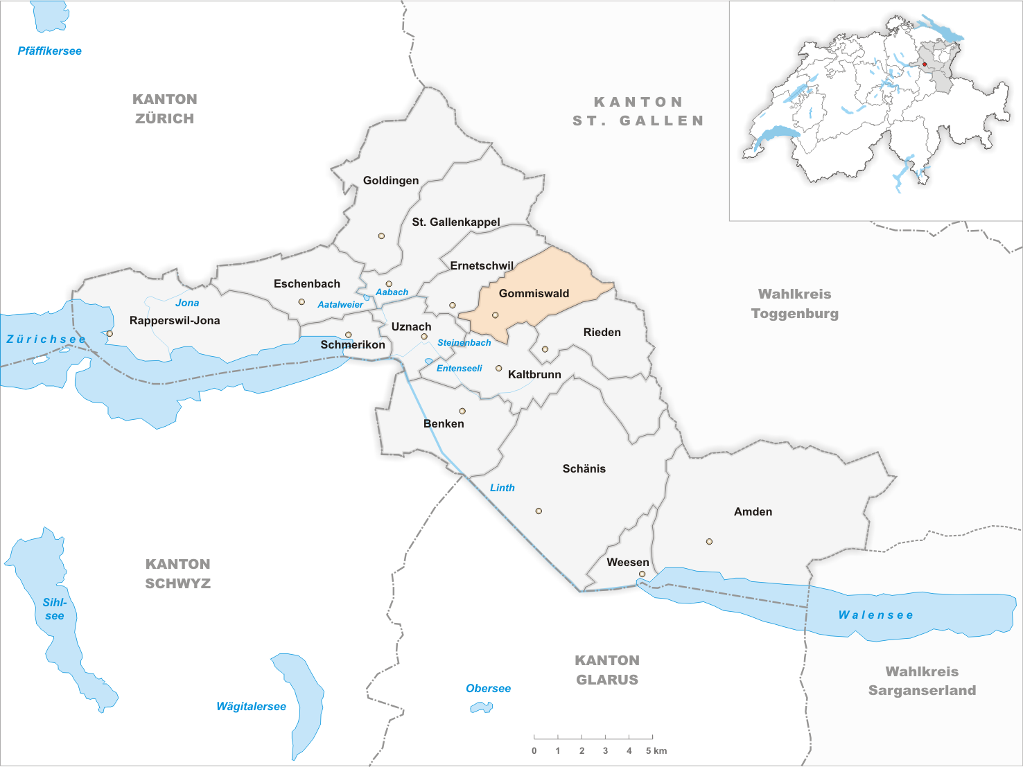 Municipality Gommiswald